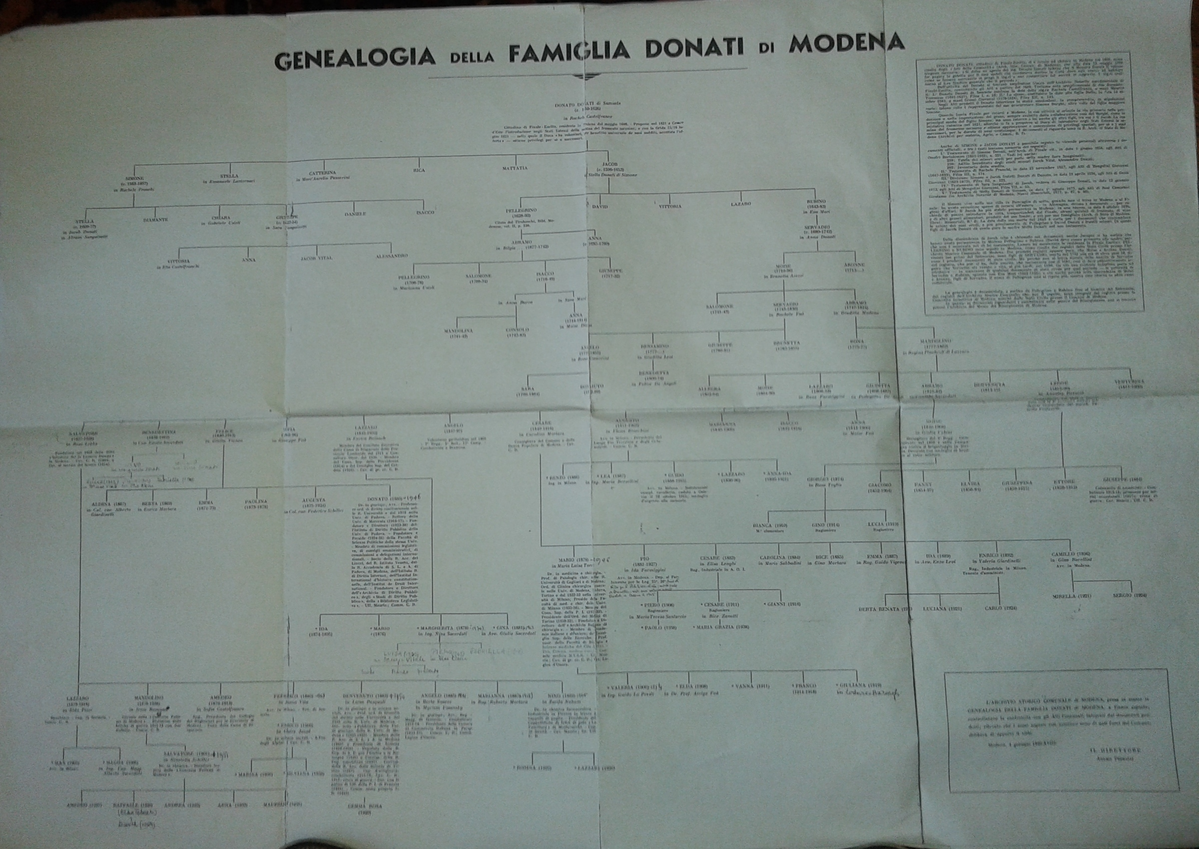 Family tree of the Donati family from Modena (Italy) from 1600 to 1900